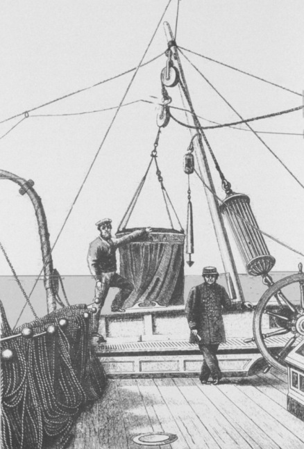 Using the Hodges shock absorber in order to bring a dredge trawl back aboard HMS Porcupine